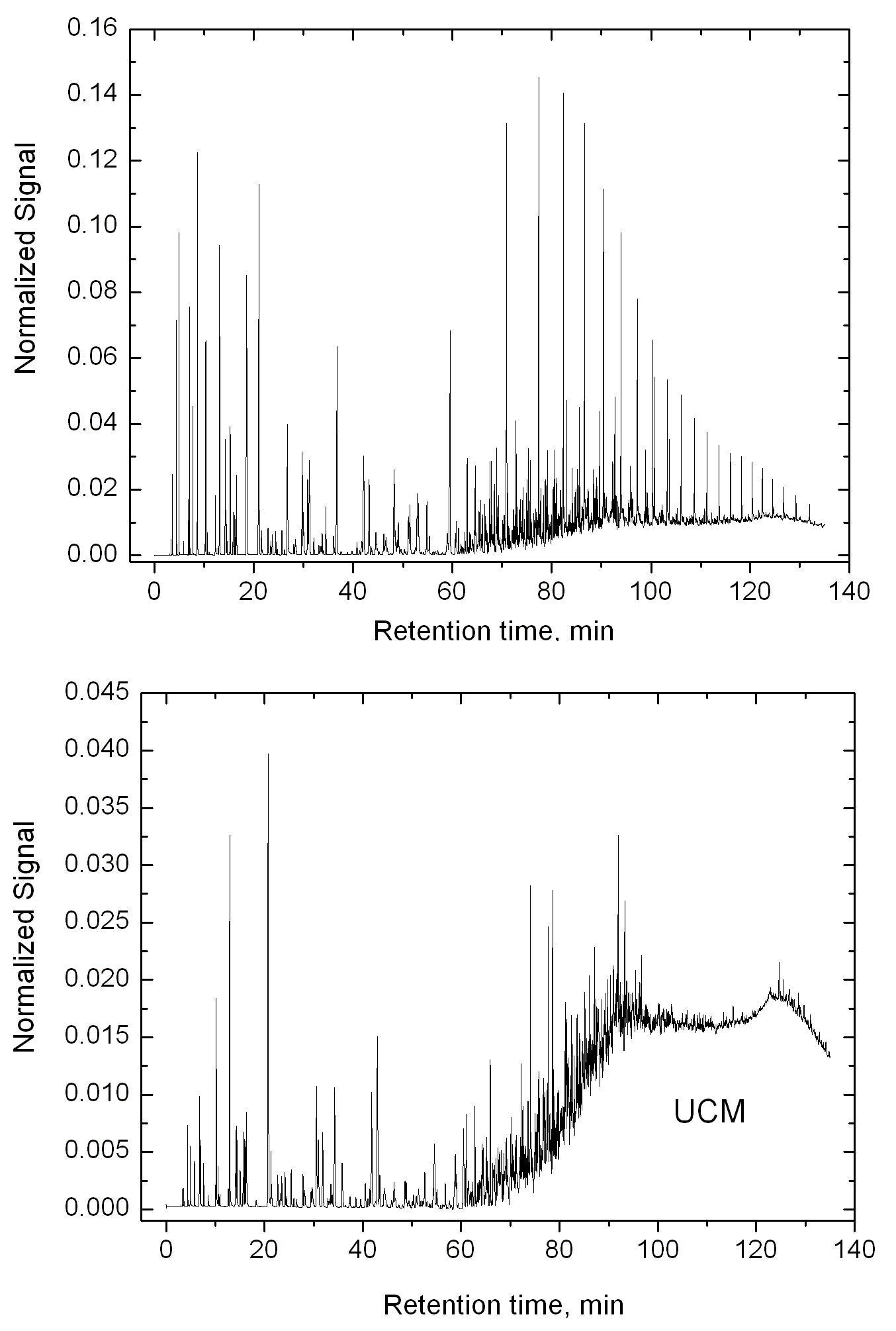 Example gas chromatograms of one non-biodegraded and one heavily biodegraded raw oils, demonstrating the UCM.